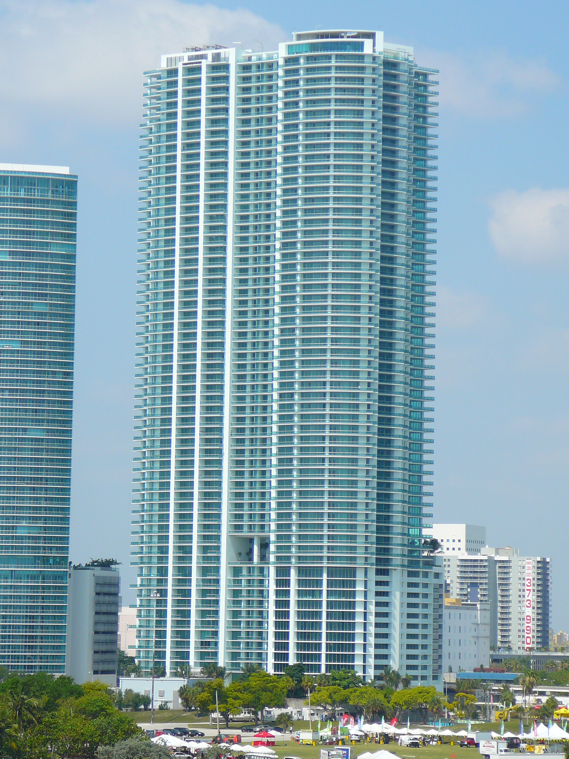 Digital photo taken by Marc Averette. en:900 Biscayne Bay in Downtown Miami 5/17/2008